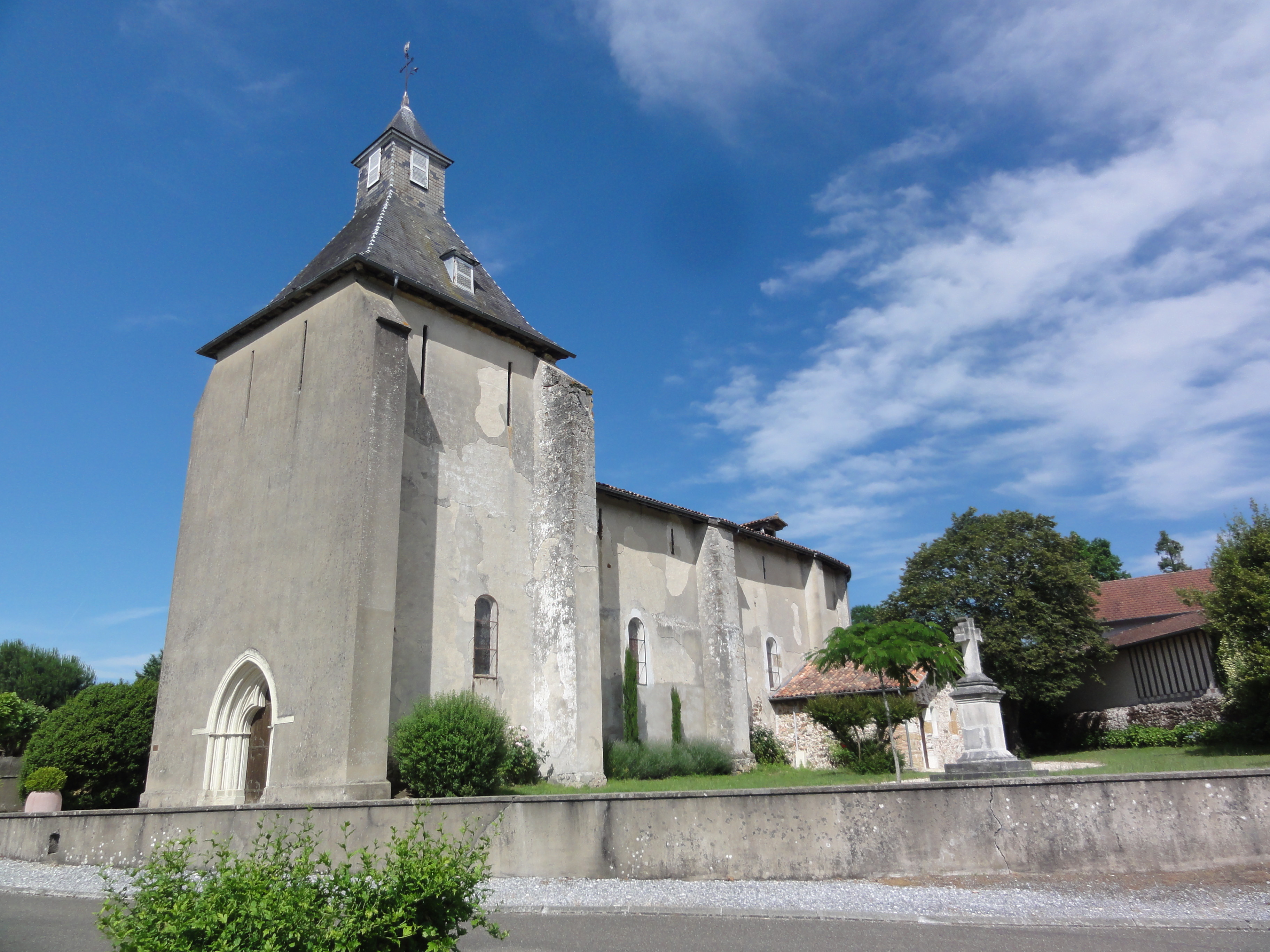 Taller (Landes) église